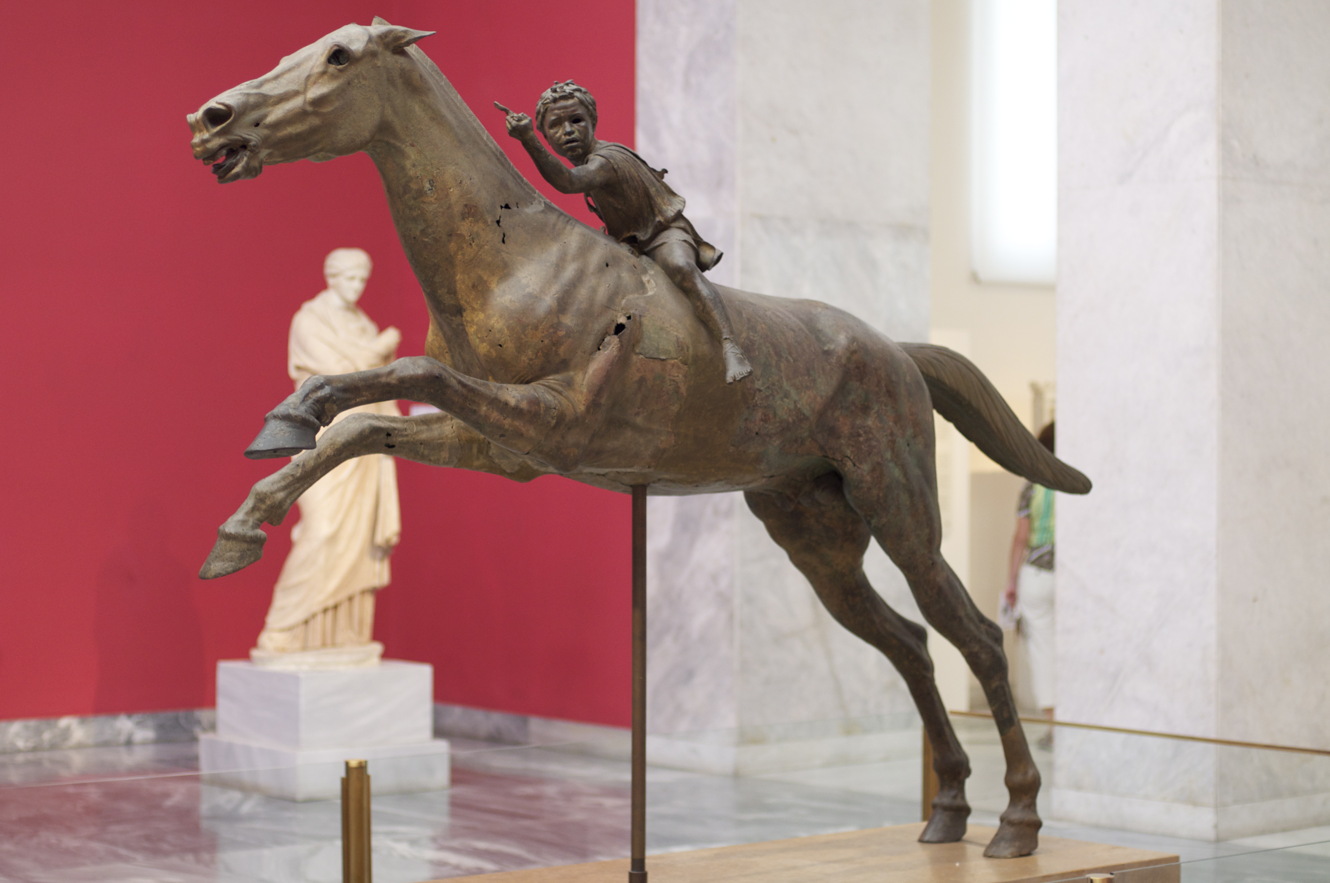 Jockey of Artemision